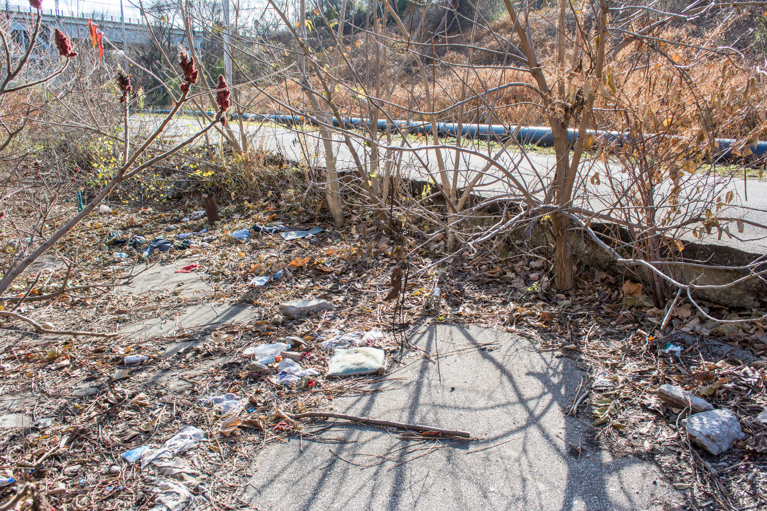 Partially collapsed Riverbed Street near the Columbus Road Bridge on the Irishtown Bend in Cleveland, Ohio, in the United States. Riverbed Street is located on the Irishtown Bend, a portion of the west bank of the Cuyahoga River between Columbus Road and the Detroit-Superior Bridge. It takes its name from an Irish American community that occupied the site between 1850 and 1950. The hillside is undergoing a slow collapse into the river below, causing the street to subside.